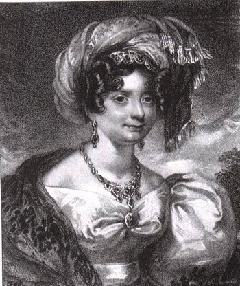 Princess Augusta Sophia of the United Kingdom (1768-1840)